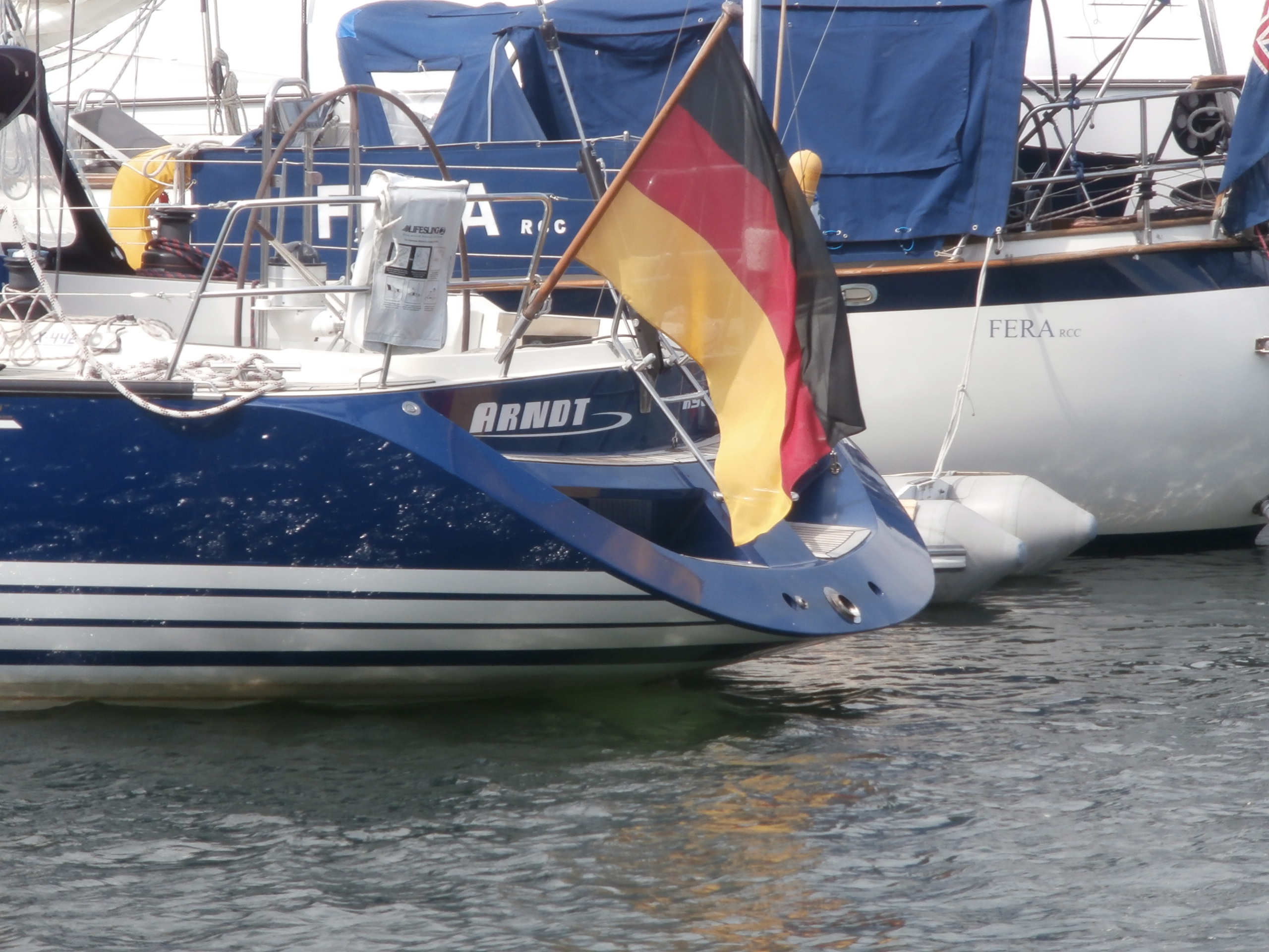 Arndt Flag Tallinn 31 July 2014